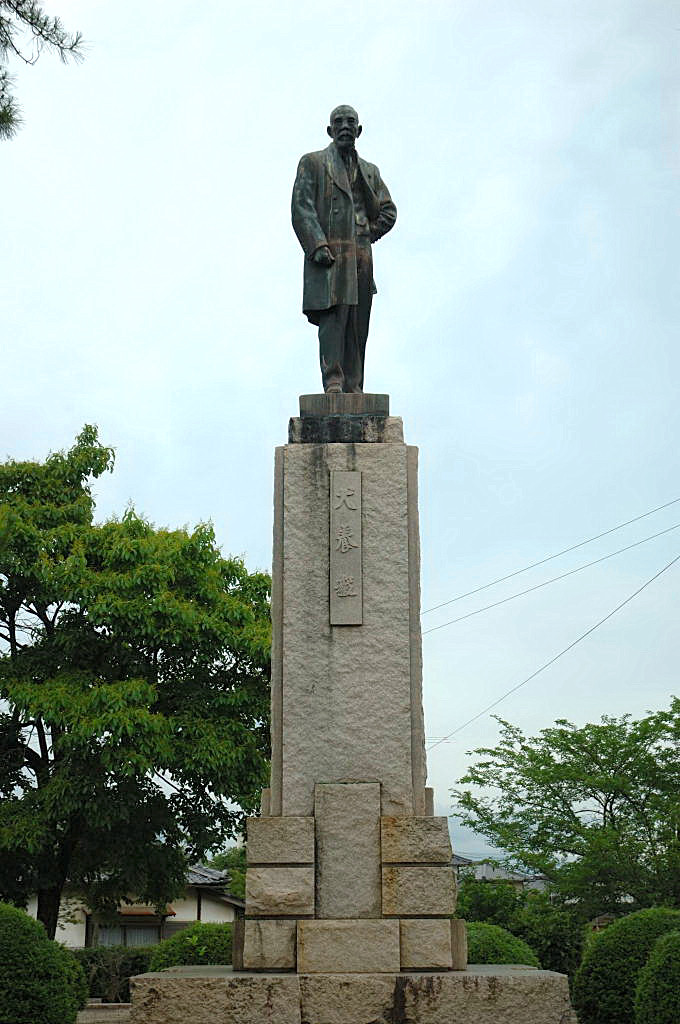 statue of Inukai Tsuyoshi in Kibitsu shrine, Okayama, Okayama, Japan.